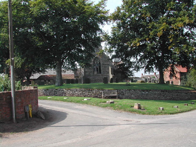 St Helen's, Kneeton Village.